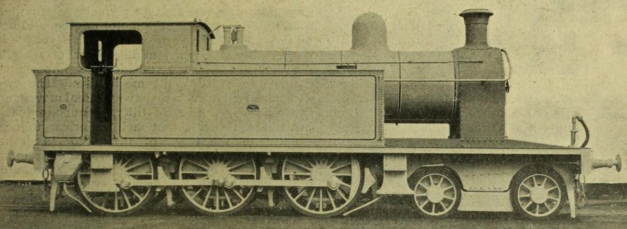 1906 Beyer Peacock 4-6-0 "Bandon Tank" for the Cork, Bandon and South Coast Railway; Also later designated Class 463/B4. Published in "The Locomotive Magazine" 5 August 1906 p.131